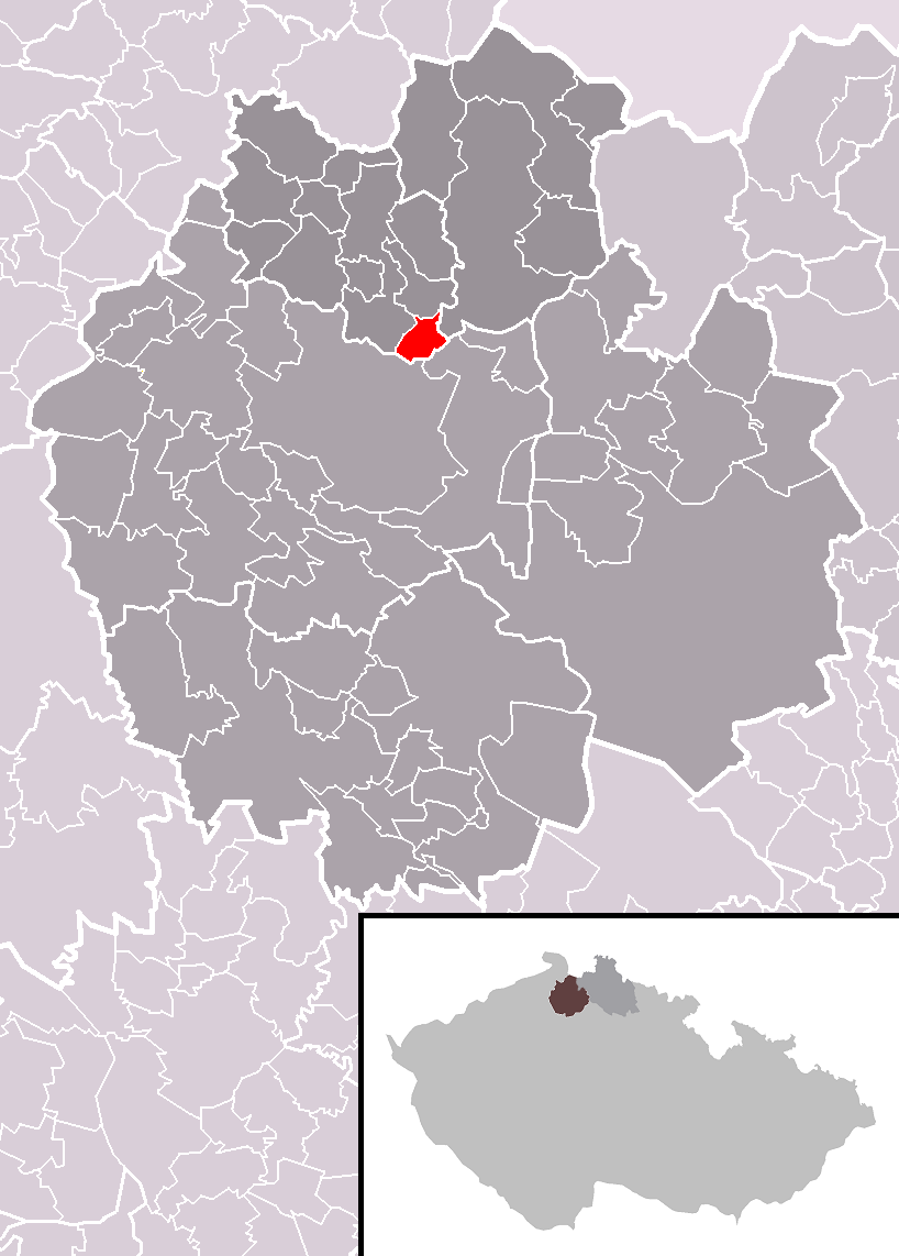 Location of Svojkov municipality within Česká Lípa District and administrative area of Nový Bor as a Municipality with Extended Competence.